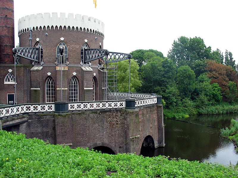 Gemaal Cruquius, Haarlemmermeer. Pumping Station Cruquius, nowadays a museum. Website museum